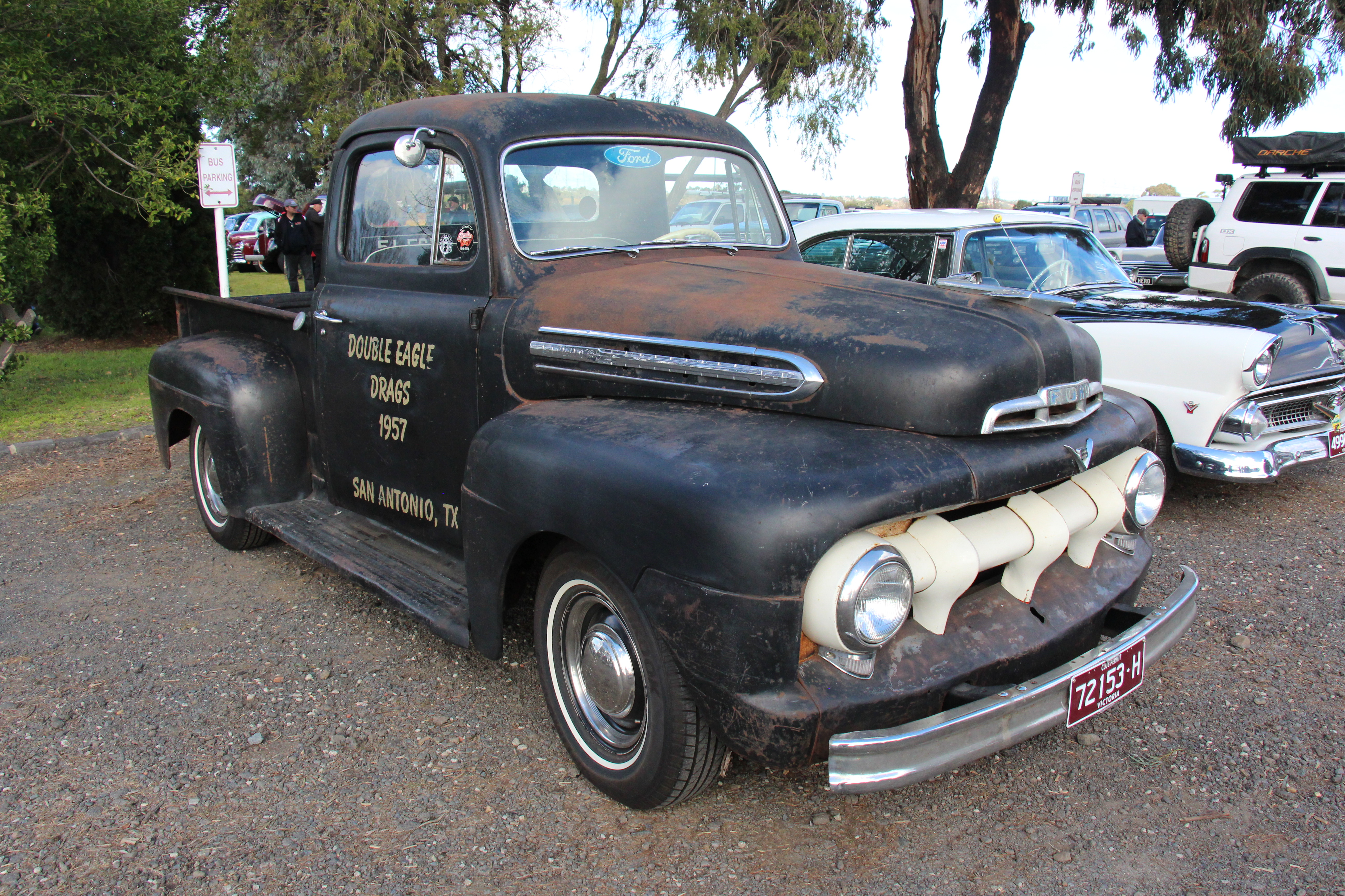 Ford had been producing factory made pickup trucks since 1925. 1948 was the first of the F-Series Ford Pickups. These early F-Series were the F-1, then from 1953, they were the F100. Ford Pickups now had a one piece windshield which increased visibility, the cab was wider, longer, and taller. The F-1 got restyled in 1951, fenders were revised to house an all-new silver painted grille, with a large horizontal bar spread across the front of the truck supported by three bullet-shaped teeth, the bumper and dashboard were restyled too. Cargo beds were hardwood rather than steel. Available in standard Five Star Cab or deluxe Five Star Extra Cab. The latter got a better appointed interior and chrome exterior accents and grille. The 52 truck was very similar to the 51, the V8 emblem moved from above the grille, up into the hood scoop embellishment on the hood, the grille now painted white and the chrome strip on the side of the hood revised. There were 8 models to choose from, starting with the 1/2 ton F-1, then 3/4 ton F-2 (heavy duty F-3), 1 ton F-4, 1 1/2 ton F-5, 2 ton F-6, 2 1/2 ton F-7 and 3 ton F-8. Engines; 95hp 226 cu in 6 cyl or 110hp 239 cu in Flathead V8.